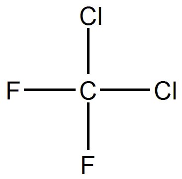 Freon 12